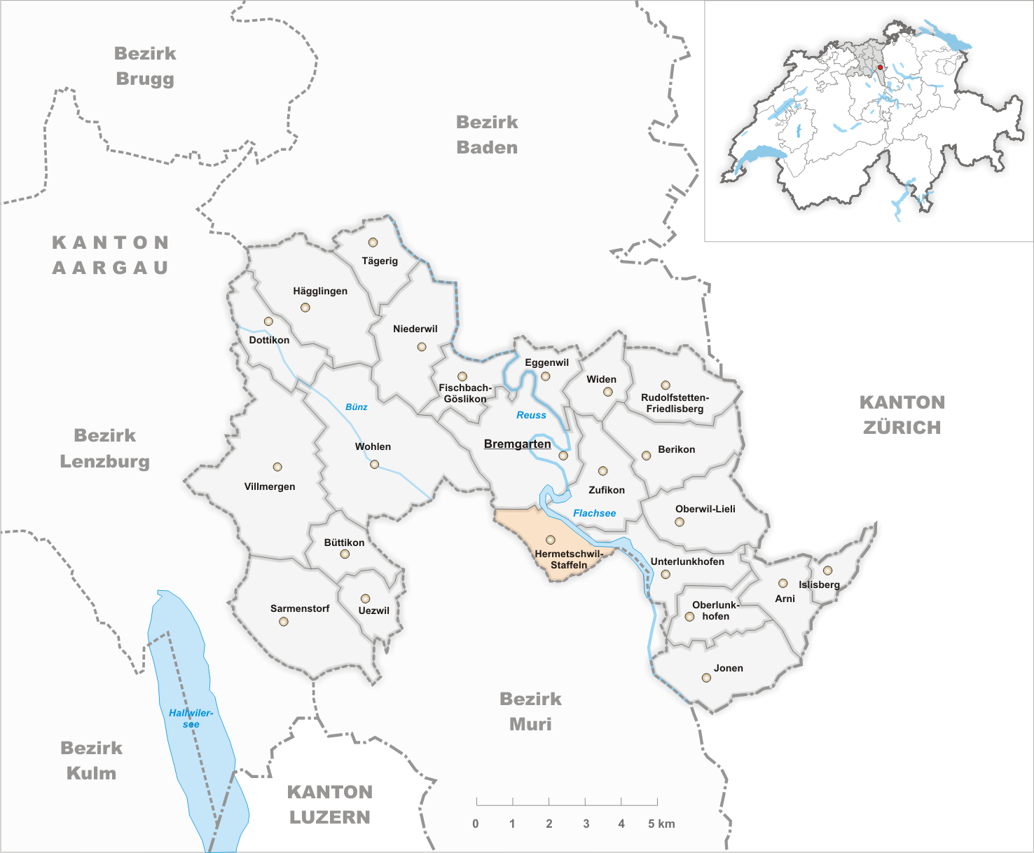 Municipality Hermetschwil-Staffeln